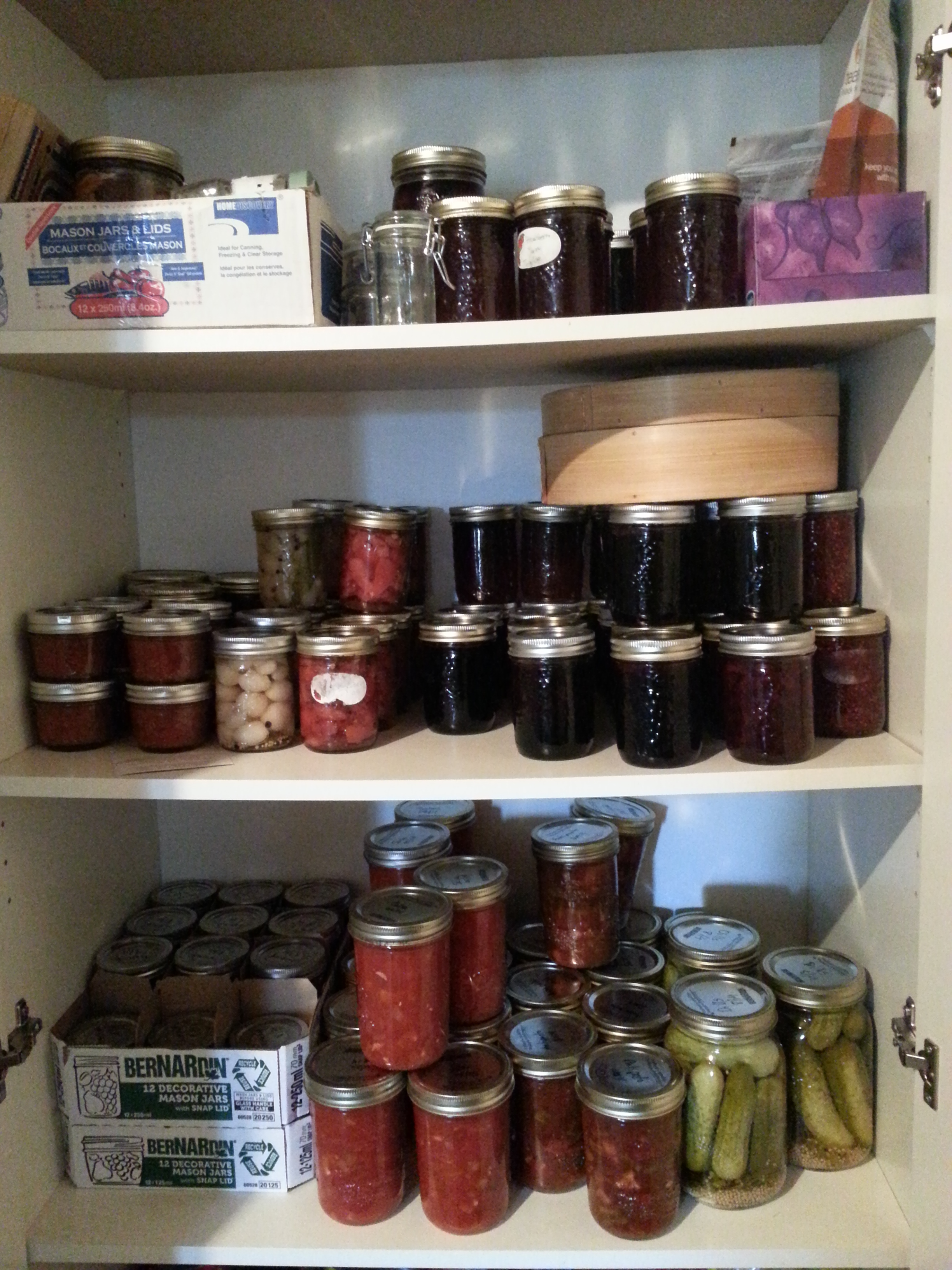 canned jams, salsa, ketchup, chutney, tomato sauce, tomato paste pickles, bruscetta